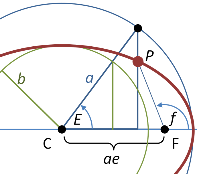 Section of ellipse showing eccentric and true anaomaly